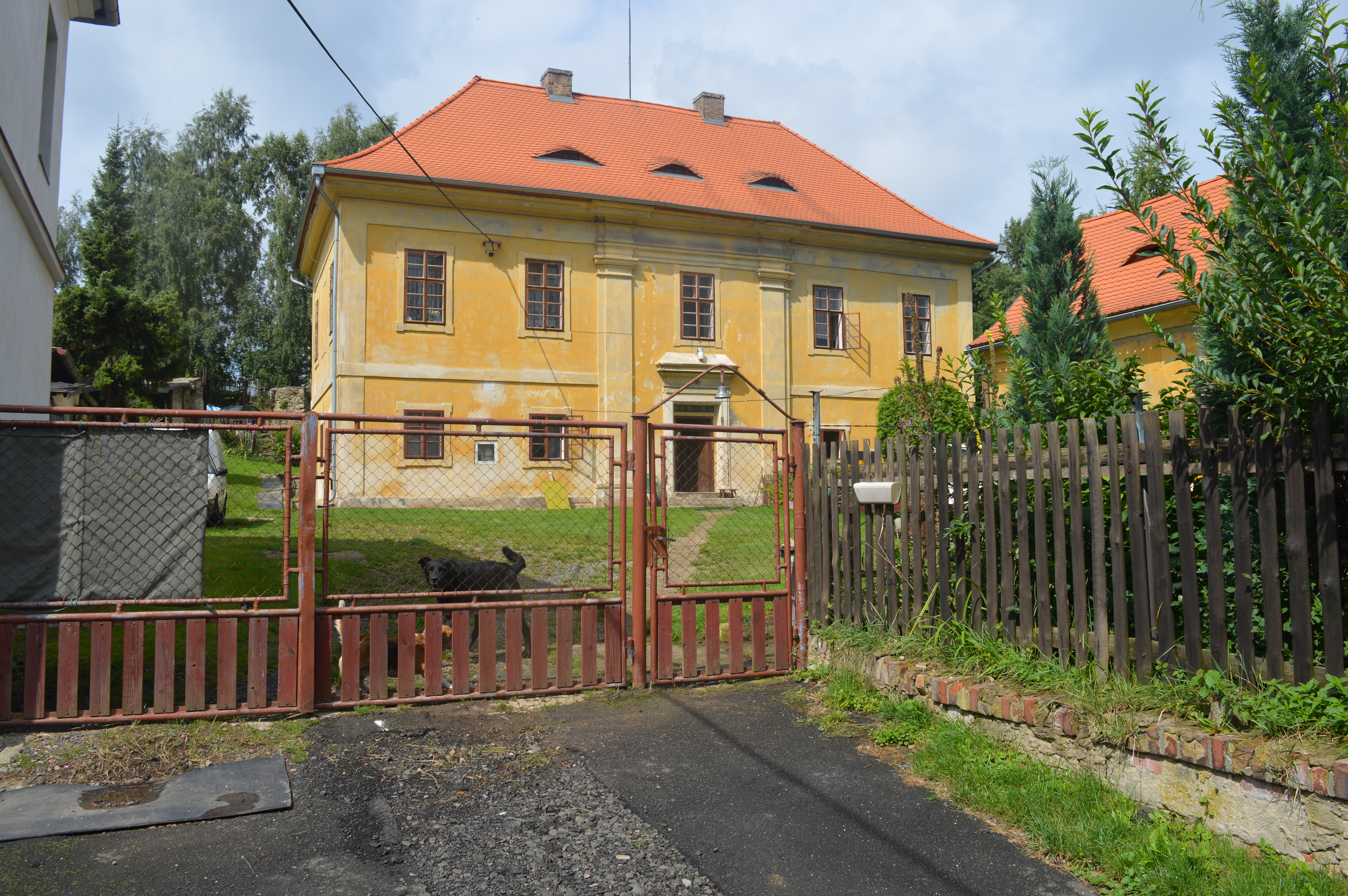 Rectory in Žim